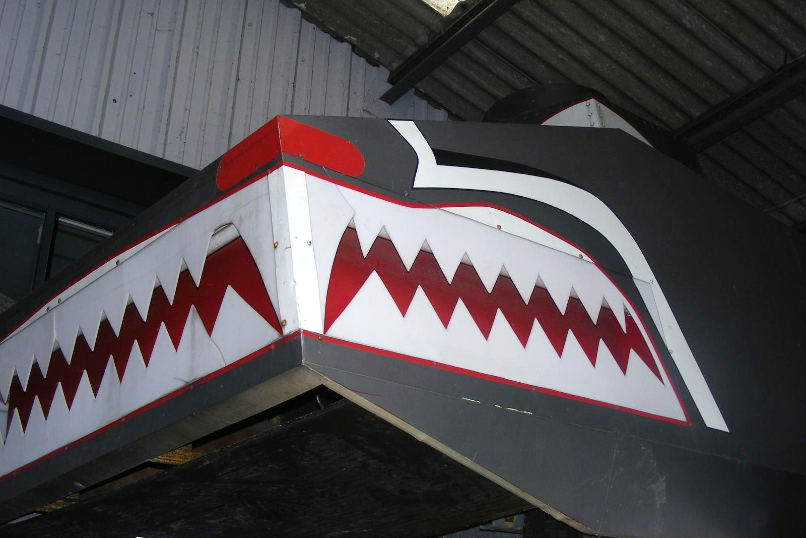 A recreation for a major Bond event. The "Dragon Tank" featured in the "Dr. No" film.